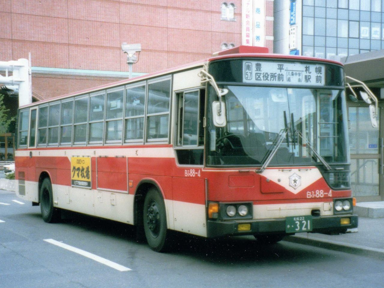 Sapporo City Bus Shiro-Fu-88-4（白ふ88-4） Mitsubishi P-MP618N (Non-air-conditioning specification) at Sapporo Sta.